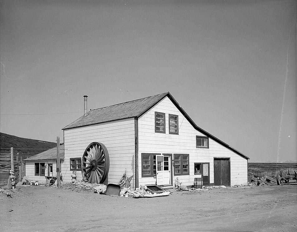 Front and side of the Cape Nome Roadhouse, a building located at mile #14 of the Nome-Council Highway near the city of Nome in the Nome Census Area of the U.S. state of Alaska. Built in 1900, the roadhouse was added to the National Register of Historic Places on 12 December 1976.